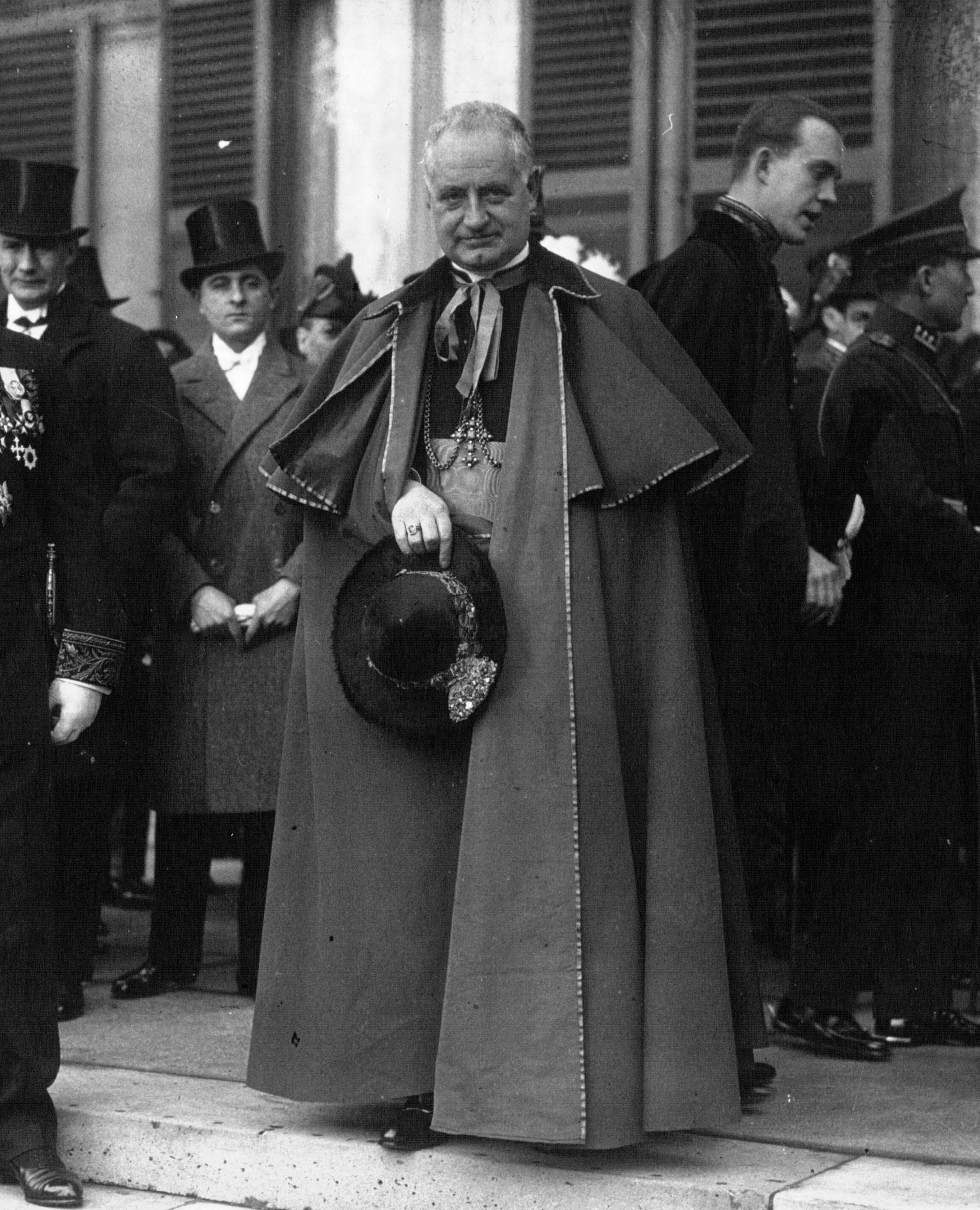 Italian cardinal Luigi Maglione (1877-1944) on his reception as Apostolic Nuncio to France at the Élysée Palace on 1st January 1927.